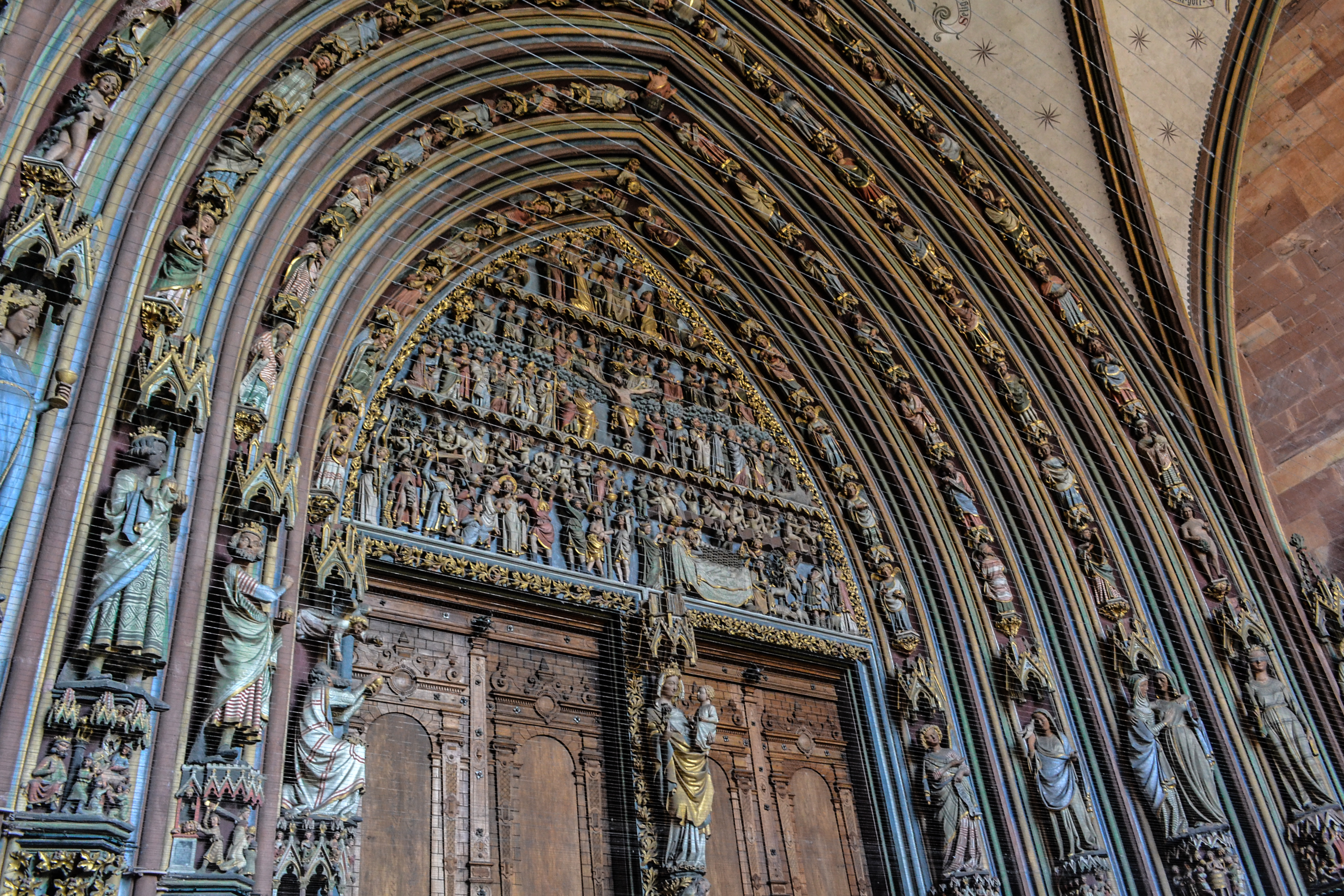 Main entrance of the Freiburg Minster (Cathedral of Our Lady)